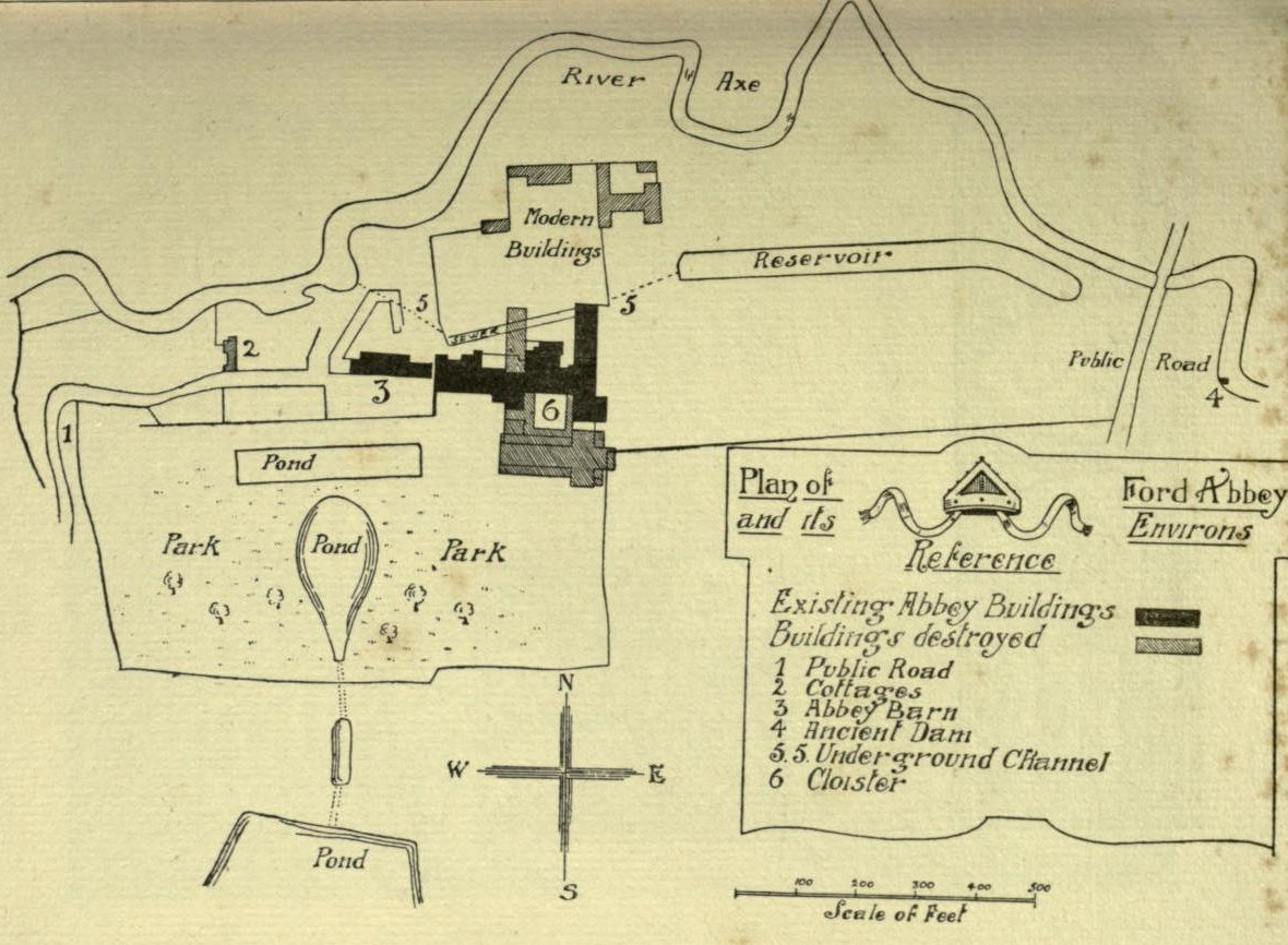 Plan of Forde Abbey and its environs (1911)